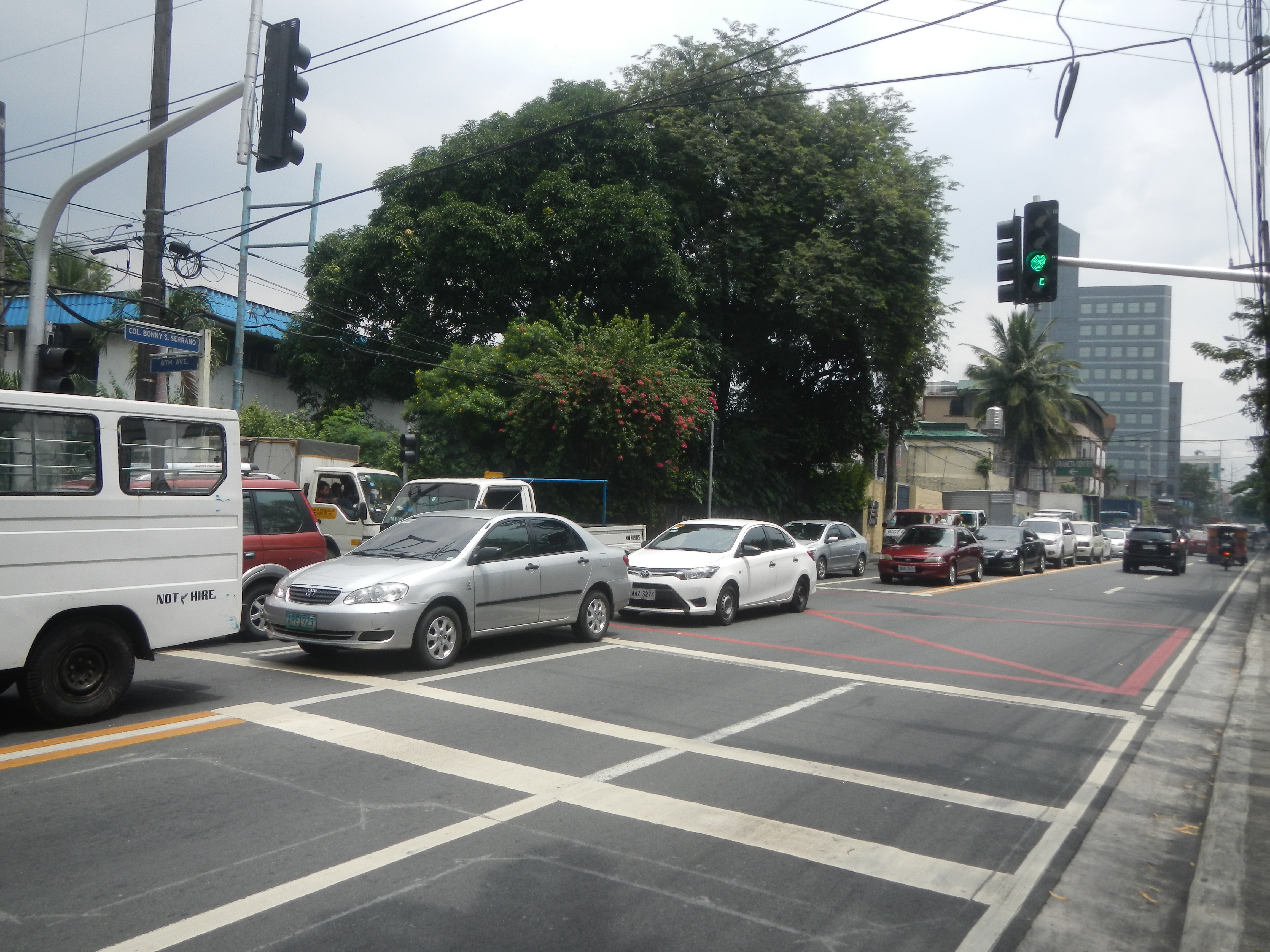 Bonny Serrano Avenue Colonel Bonny S. Serrano Avenue (8th to 15th Avenue, Socorro-Bagong Lipunan Crame-Camp Aguinaldo, Murphy, Cubao, Quezon City section) Murphy, Cubao, in Socorro, Quezon City, Barangay San Roque (Cubao Extension), Districts IV, Quezon City to F & H Ongpauco Building 1989 Philippine Public Safety College 55 Al-Fer Bldg, EDSA corner B. Serrano Avenue, Quezon City, Main Avenue Bus Stop B South Road along and from EDSA (road) to Aurora Boulevard, Quezon City upon the Araneta Center–Cubao MRT Station, Araneta Center–Cubao LRT Station (Note: Judge Florentino Floro, the owner, to repeat, Donor Florentino Floro of all these photos hereby donate gratuitously, freely and unconditionally all these photos to and for Wikimedia Commons, exclusively, for public use of the public domain, and again without any condition whatsoever).